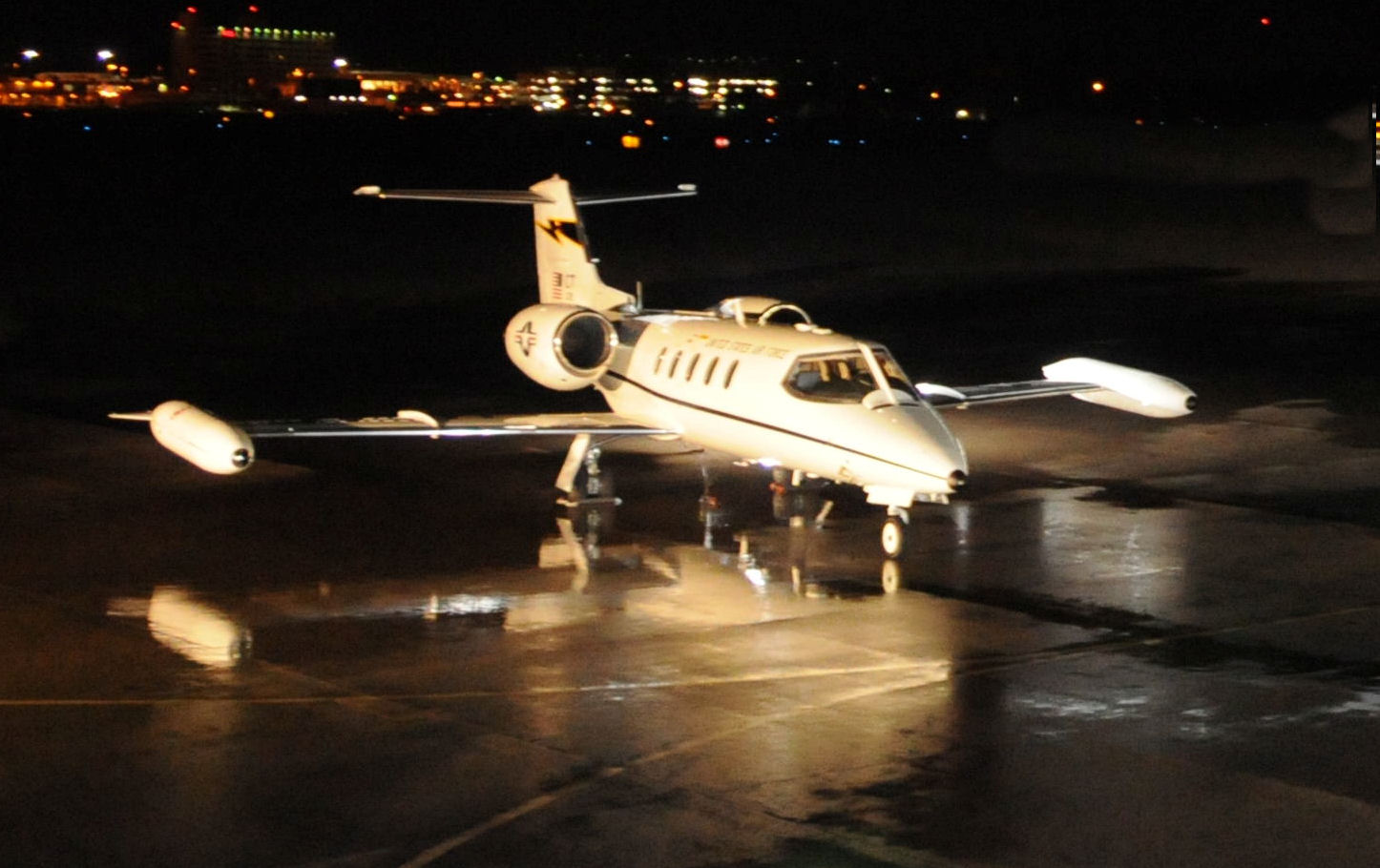 118th Airlift Squadron C-21A Learjet